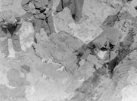 American investigators study corpses exhumed from a mass grave in Berga-Elster, a sub-camp of Buchenwald.